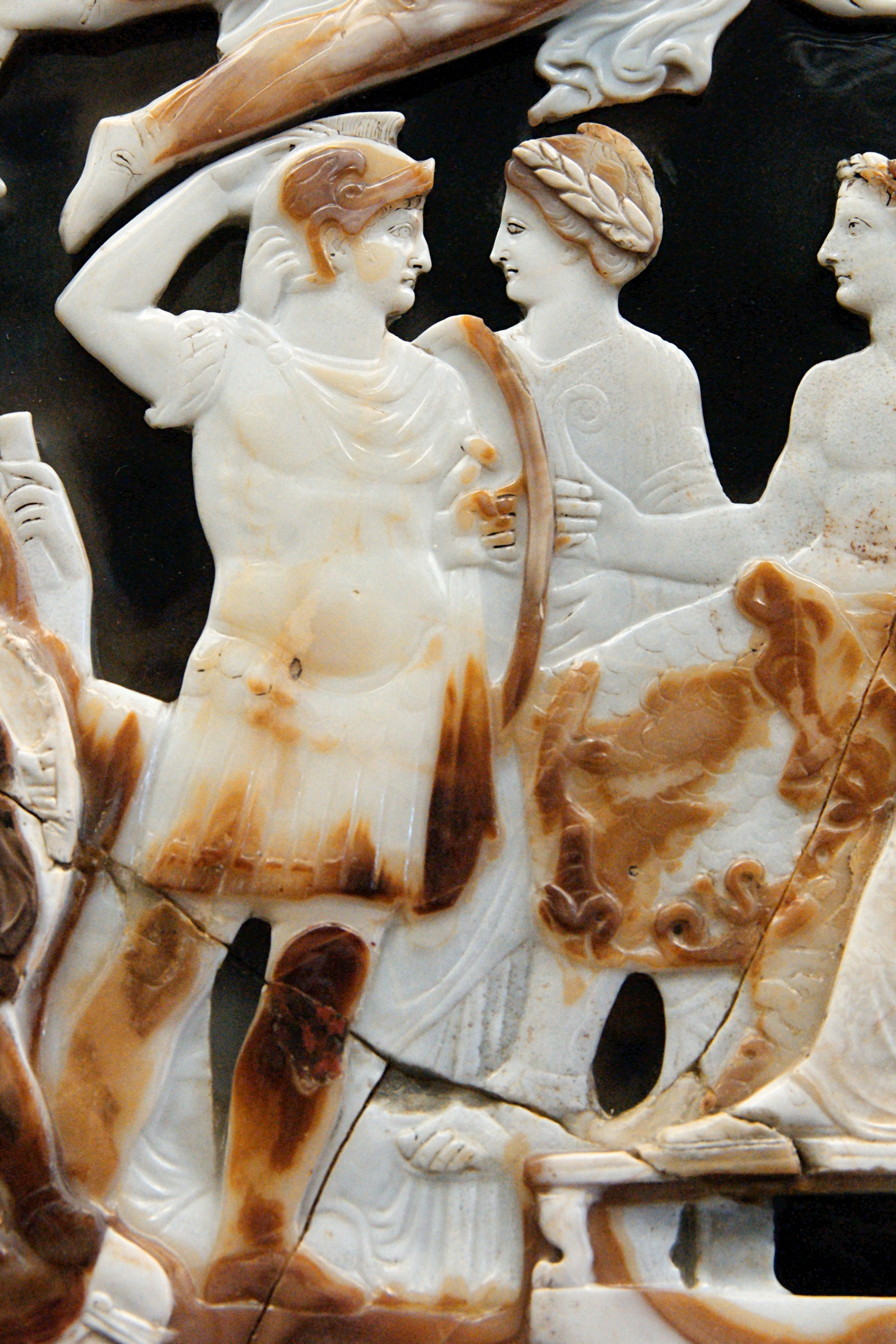 Nero Julius Caesar (on the left), eldest son of Germanicus, saluting Tiberius (seated, on the right), detail of the so-called Great Cameo of France. Five-layered sardonyx cameo, Roman artwork, second quarter of the 1st century AD.